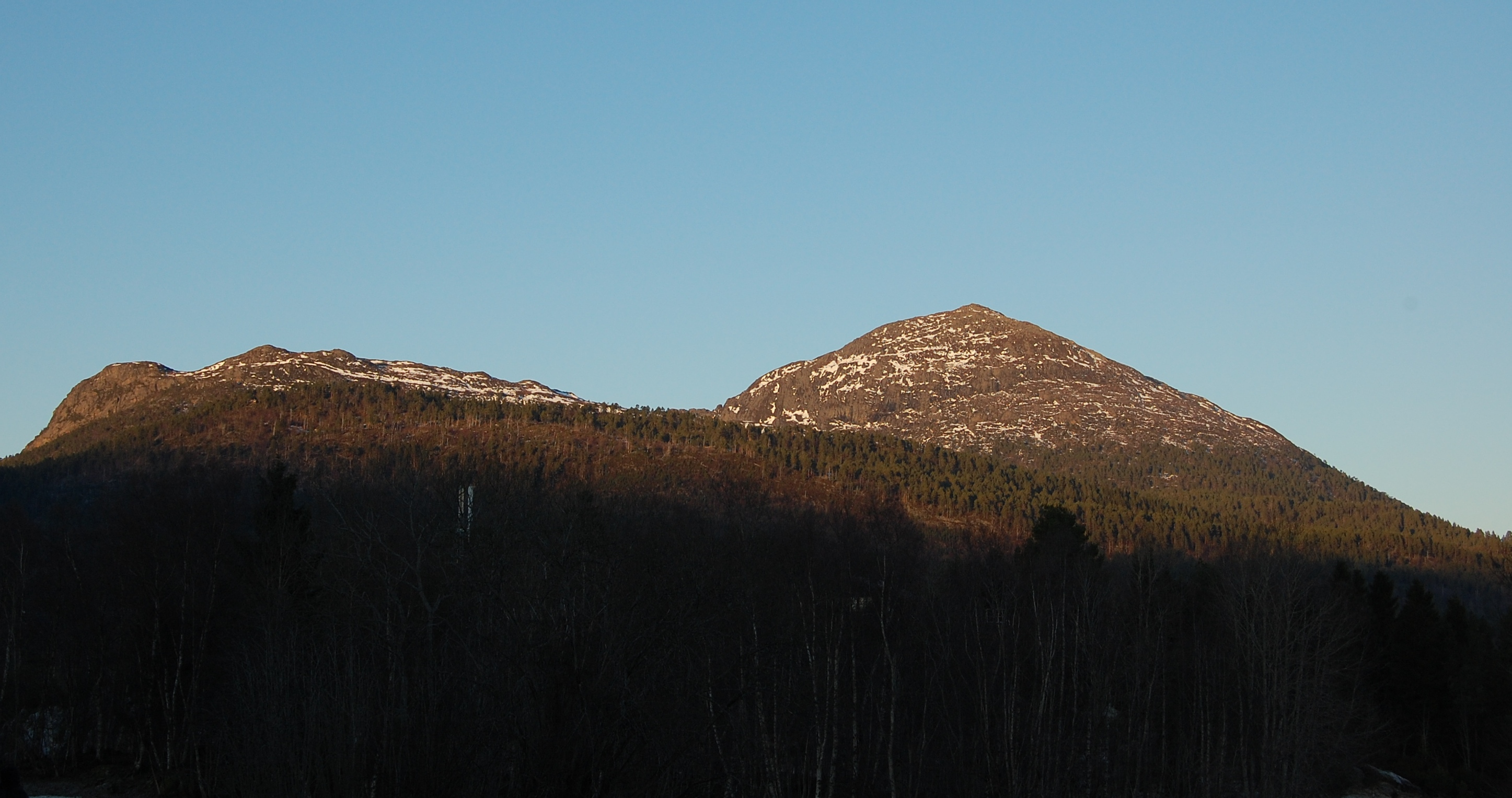 The mountain Freikollen with Lagfjellet in front. Picture taken at Flatsetoeya, Frei